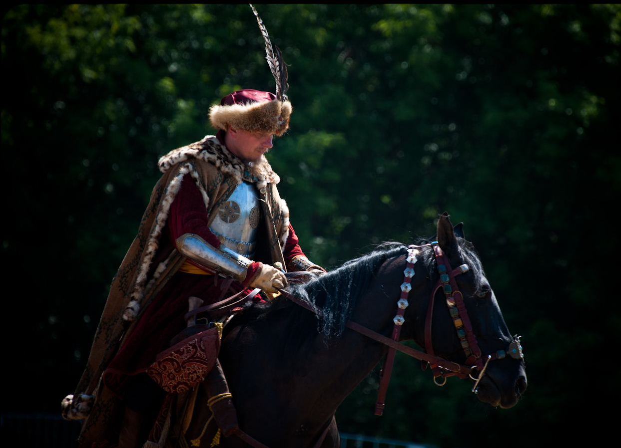 The captain of hussars, a historical reconstructionБеларуская (тарашкевіца): Ротмістар гусарыі, гістарычная рэканструкцыя